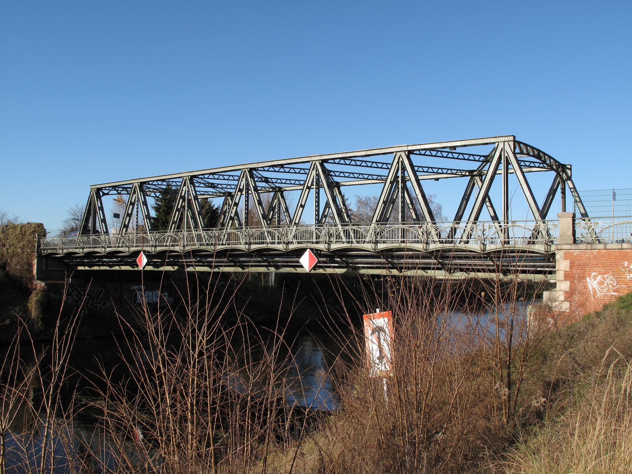 The Späthstraßenbrücke in Berlin-Britz is a former street bridge of the Späthstraße crossing the Teltowkanal. Its in the present functionless and was substituted by the „Neue Späthbrücke“ in 2002, built around 700 meters northwards. The listed and furthermore existing steel truss bridge was built in 1906. Its named after the botanist Franz Späth.